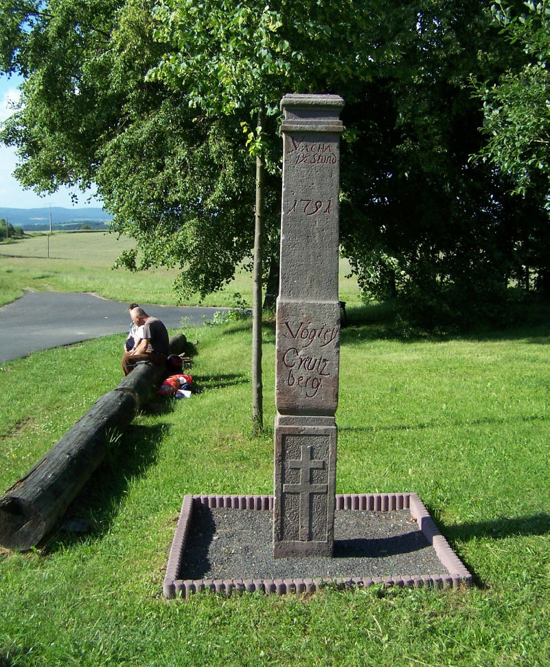 The Vitzerodaer Cross - a territorial marking point of the territory of the monastery Hersfeld at the "Hohe Strasse".